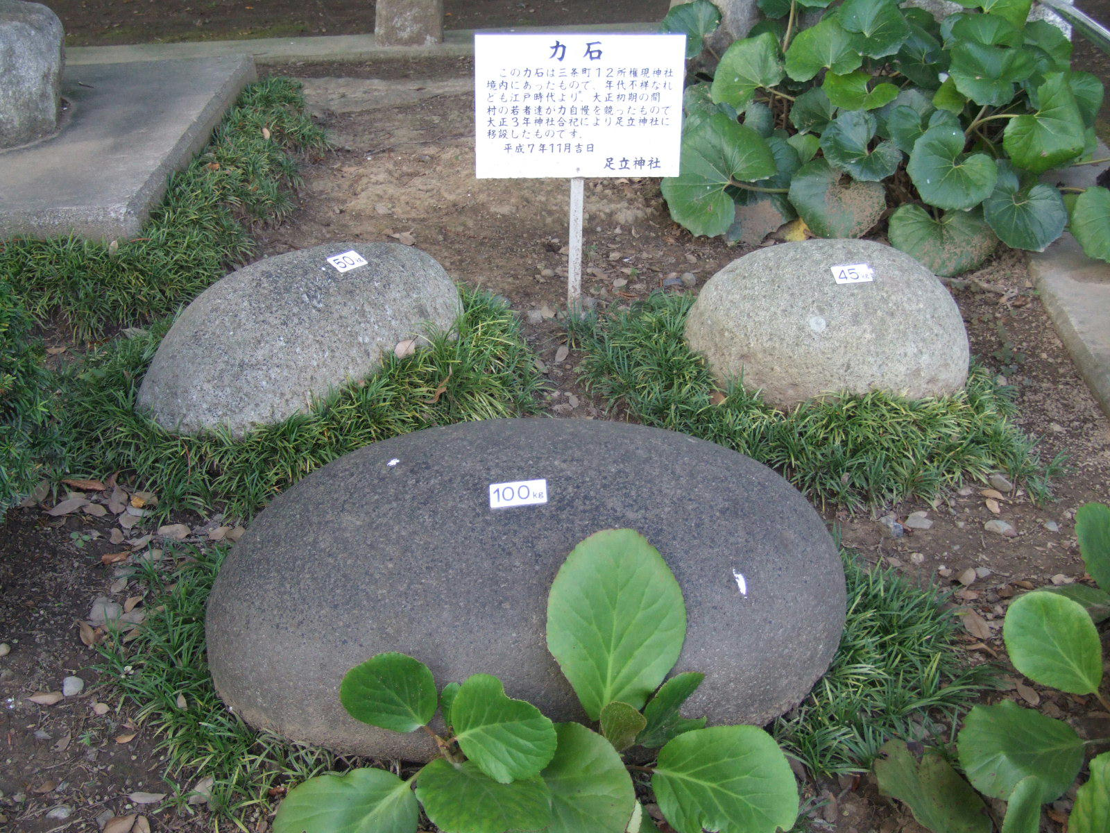 Chikara Ishi (Strength Stones) in the Adachi Shrine. Saitama, Saitama prefecture, Japan.